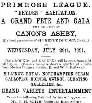 Ad for Primrose League summer fair at Canons Ashby